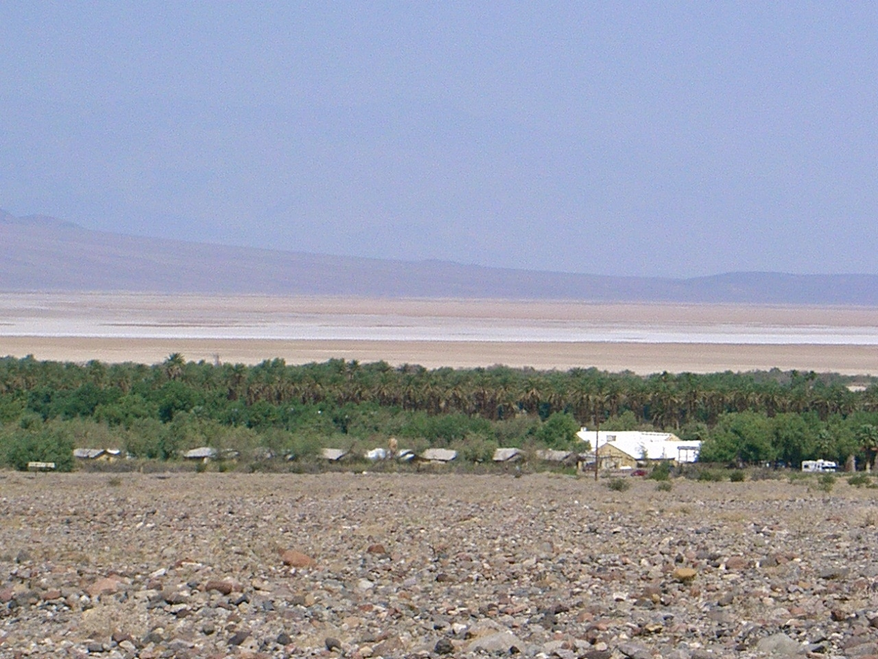 Death Valley oasis, Death Valley, California, United States of America